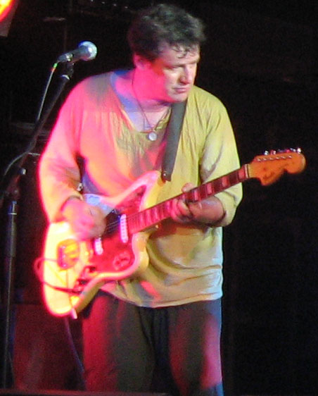 Russian rock band Auctyon performing in Saint-Petersburg on July 10 2009.